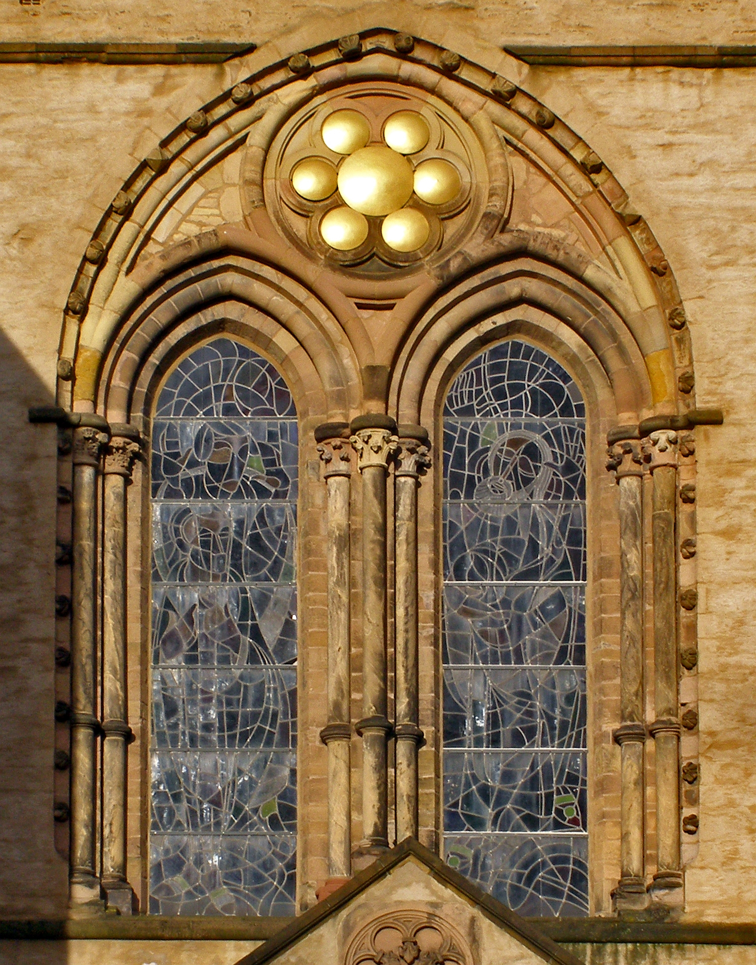 Munster church window in town of Herford, District of Herford, North Rhine-Westphalia, Germany.